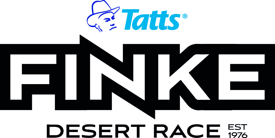 Tatts Finke Desert Race - Australia's Fastest & Greatest Desert Race